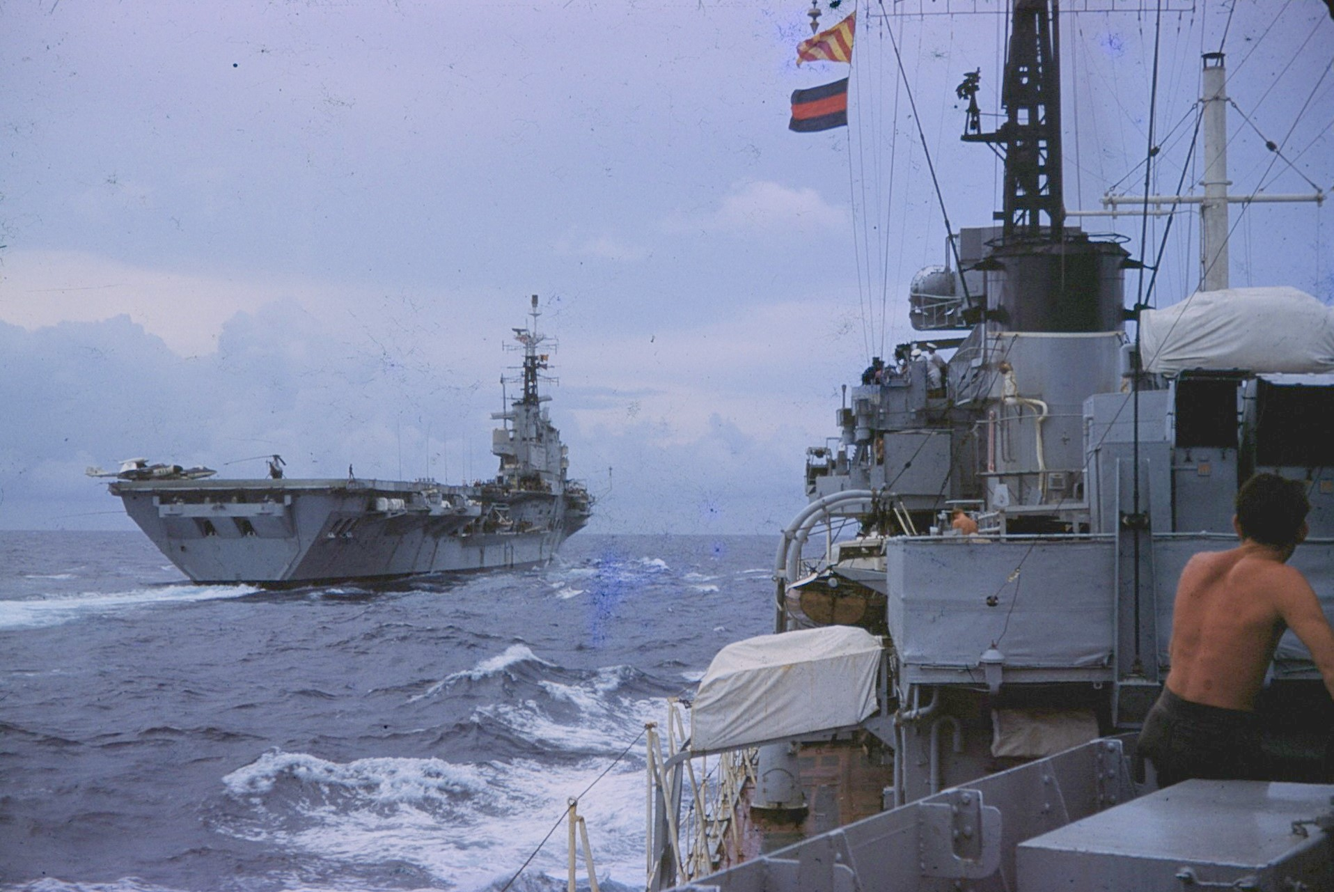 The Royal Navy aircraft carrier HMS Centaur (R06) seen from the destroyer HMS Solebay (D70) on the way to Aden from Ceylon, in 1961.